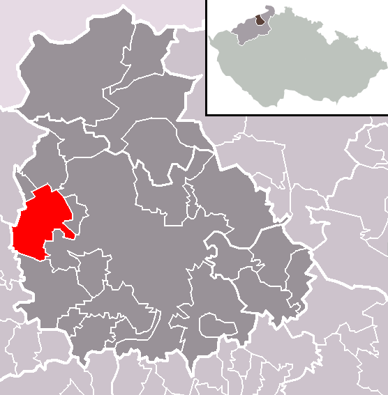 Location of Chabařovice town within Ústí nad Labem District and administrative area of Ústí nad Labem as a Municipality with Extended Competence.